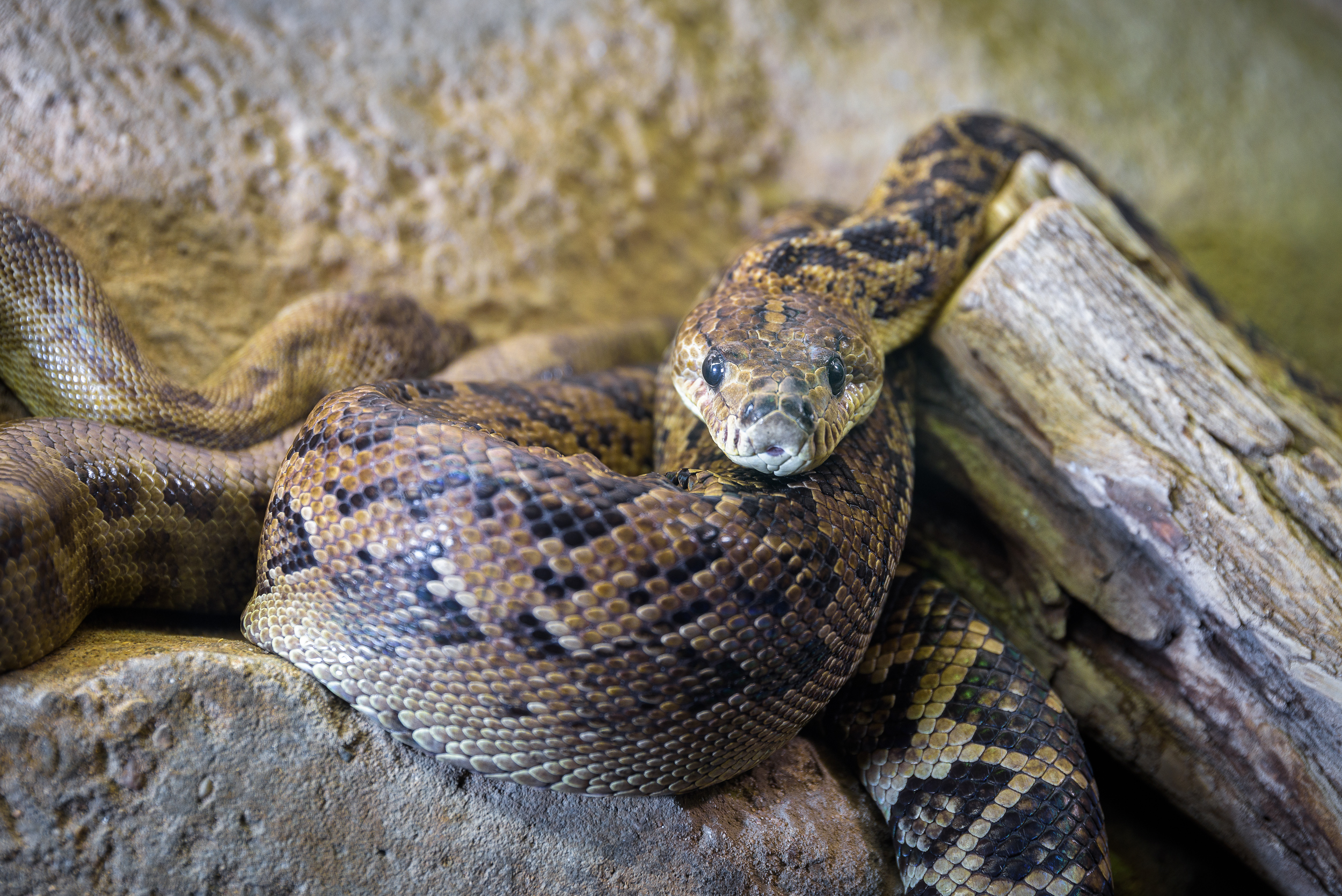 Cuban boa in Prague Zoo